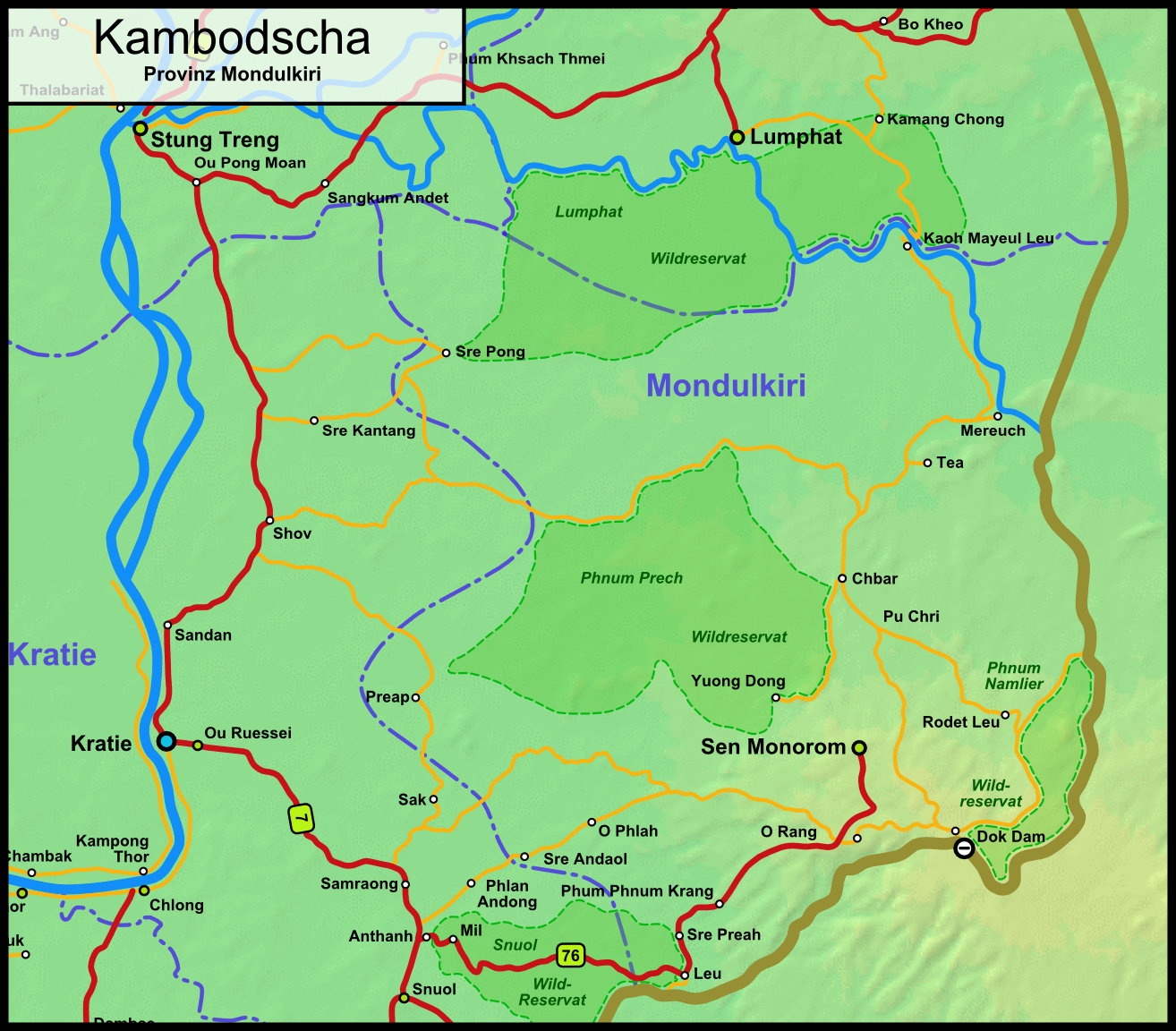 Map of the Cambodian province Mondulkiri